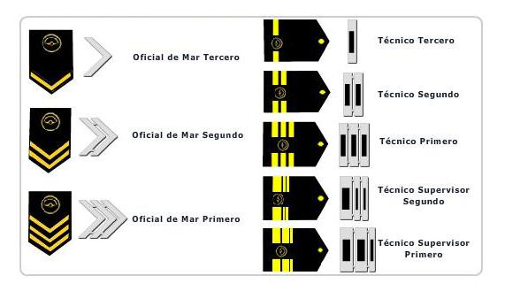 Peruavian Navy's Non-commissioned officer